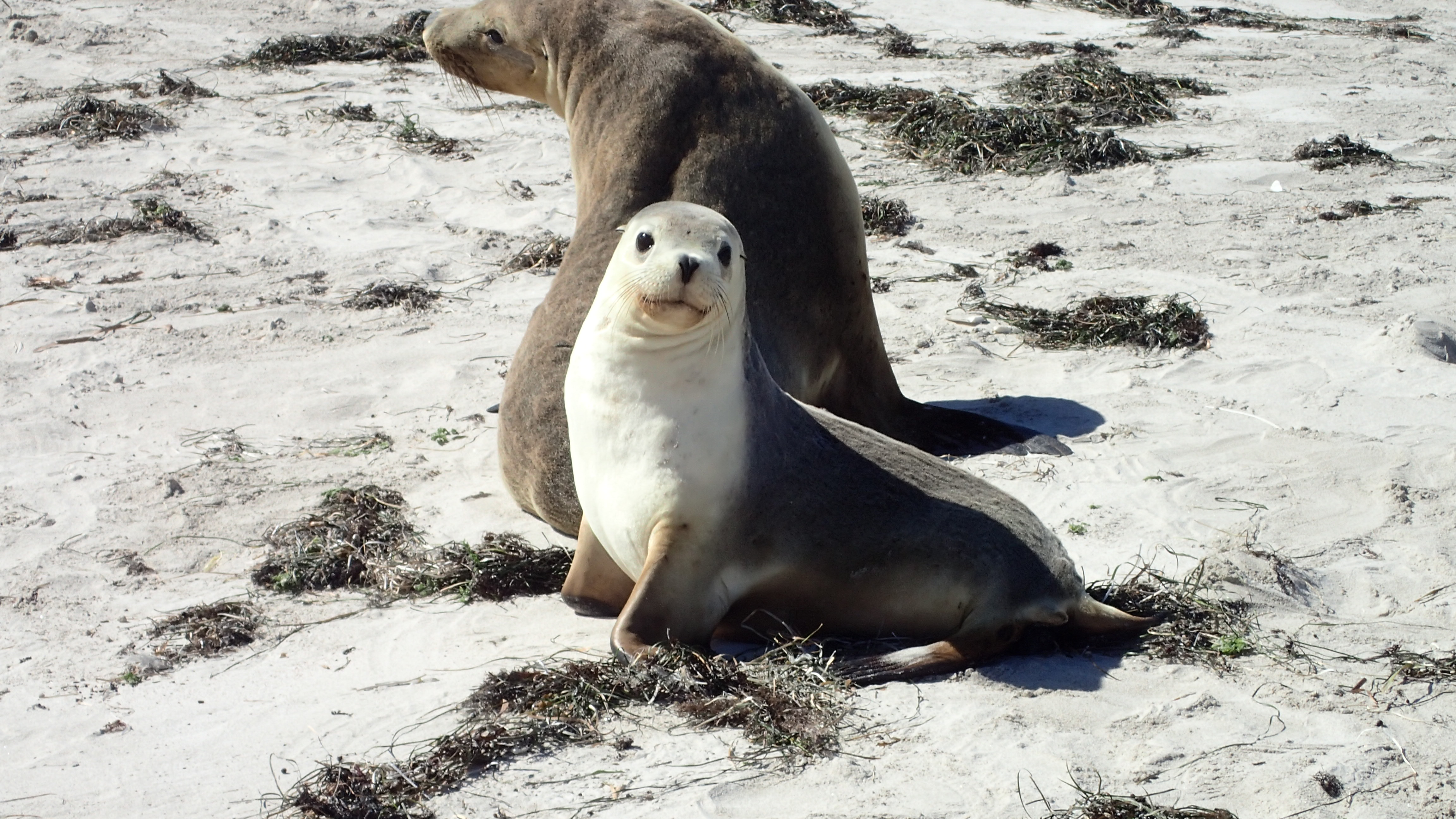 Sea Lion mother & cub. Inquisitive and friendly.